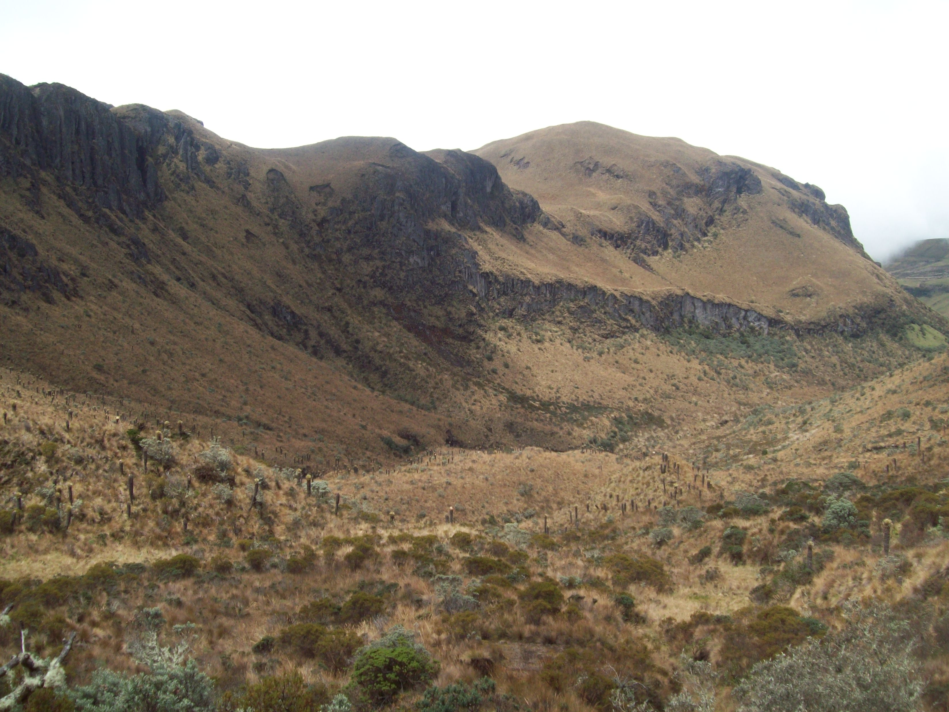 Highlands ended in a peak with all-year snow in departmen of Caldas, near Manizales.